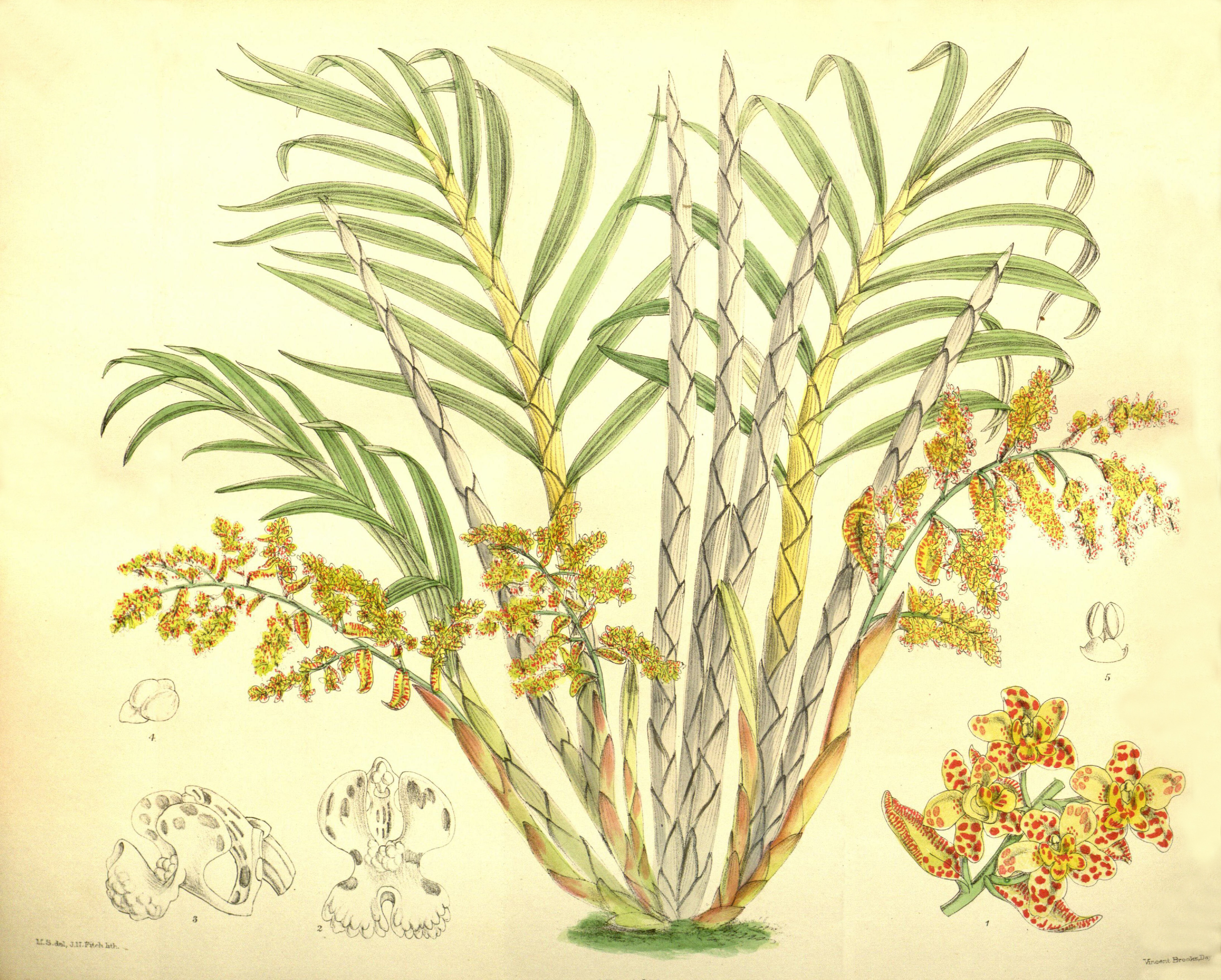 Illustration of Cyrtopodium palmifrons